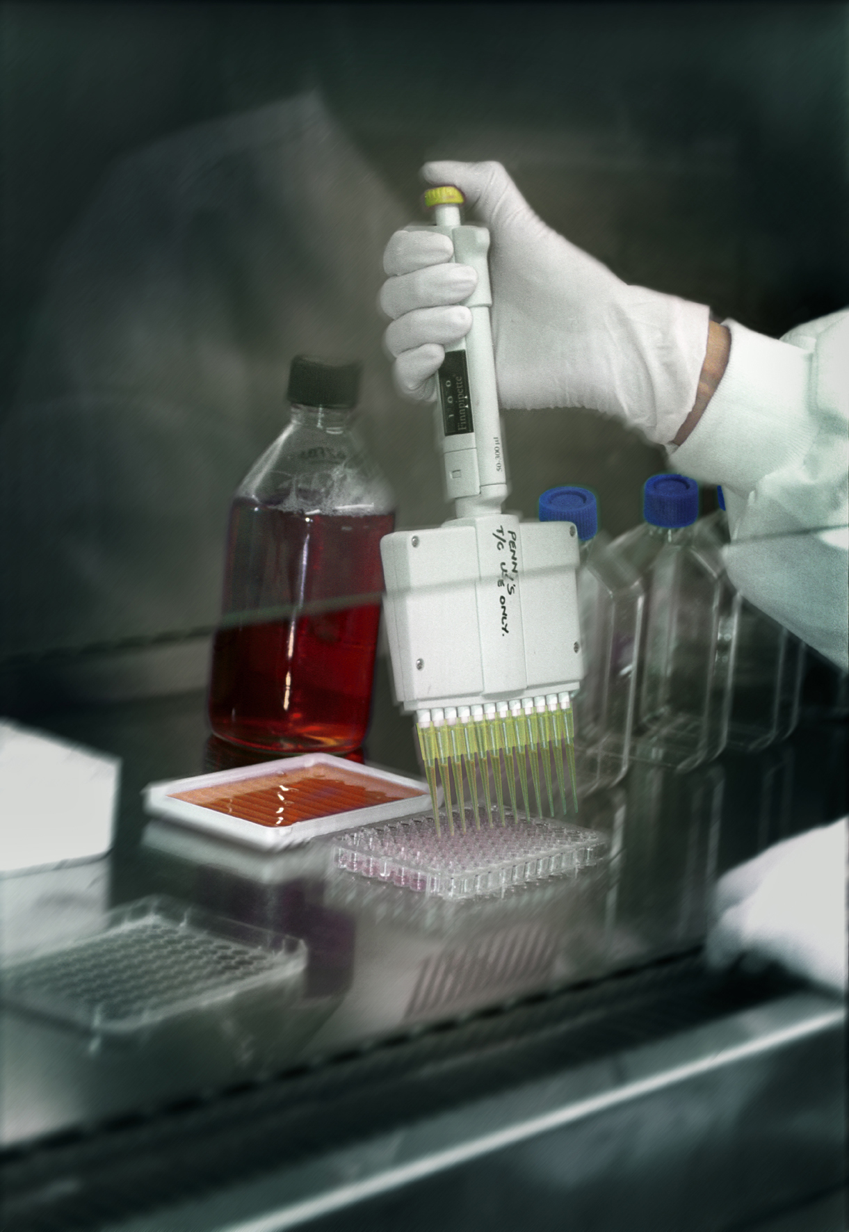 Penny Bean, Research Assistant in the field of cell biology, is holding a multi-channel delivery device feeding cells replicating in a 96 well plate.